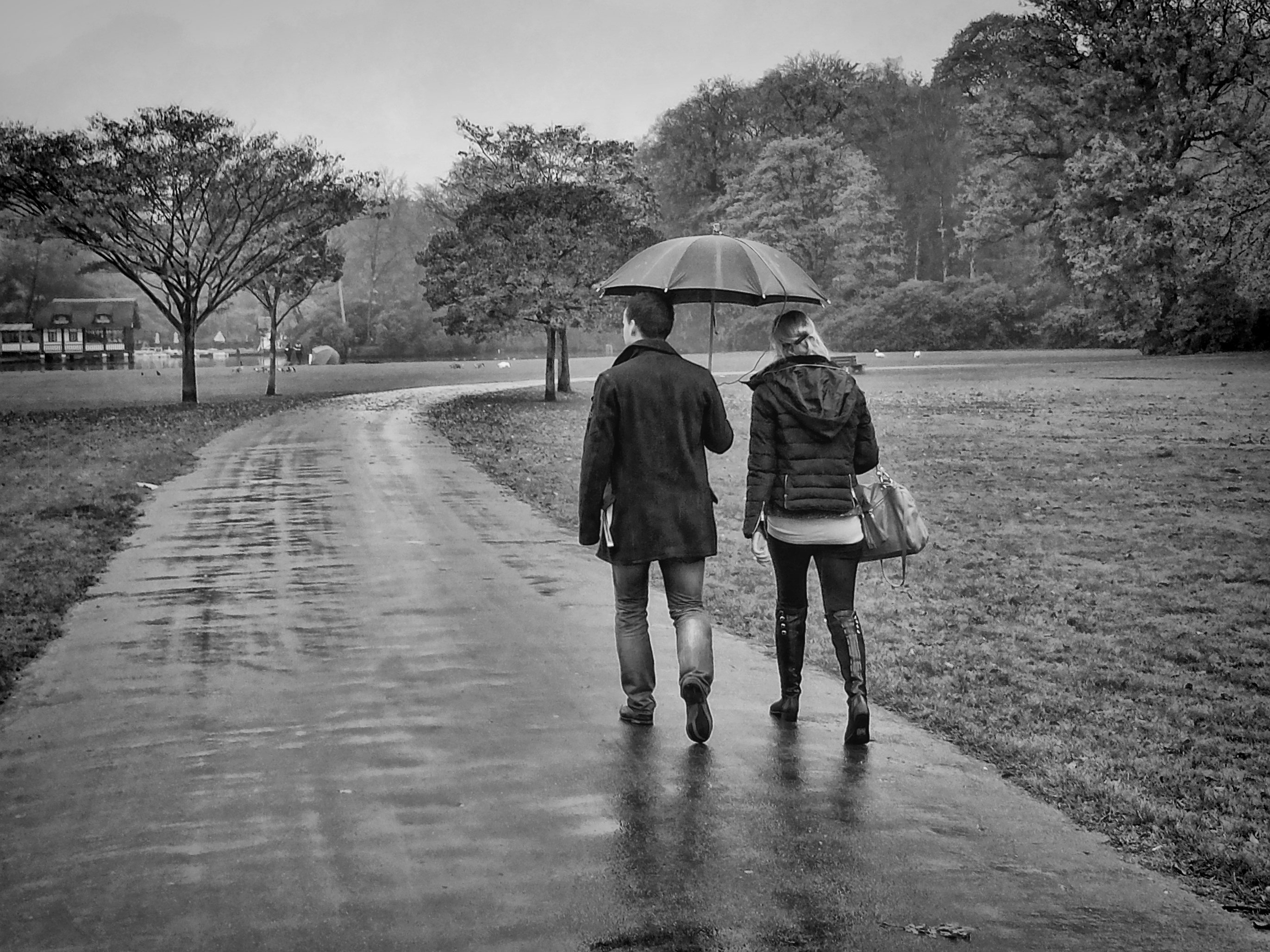 A walk in the rain Location: Park of Brasschaat